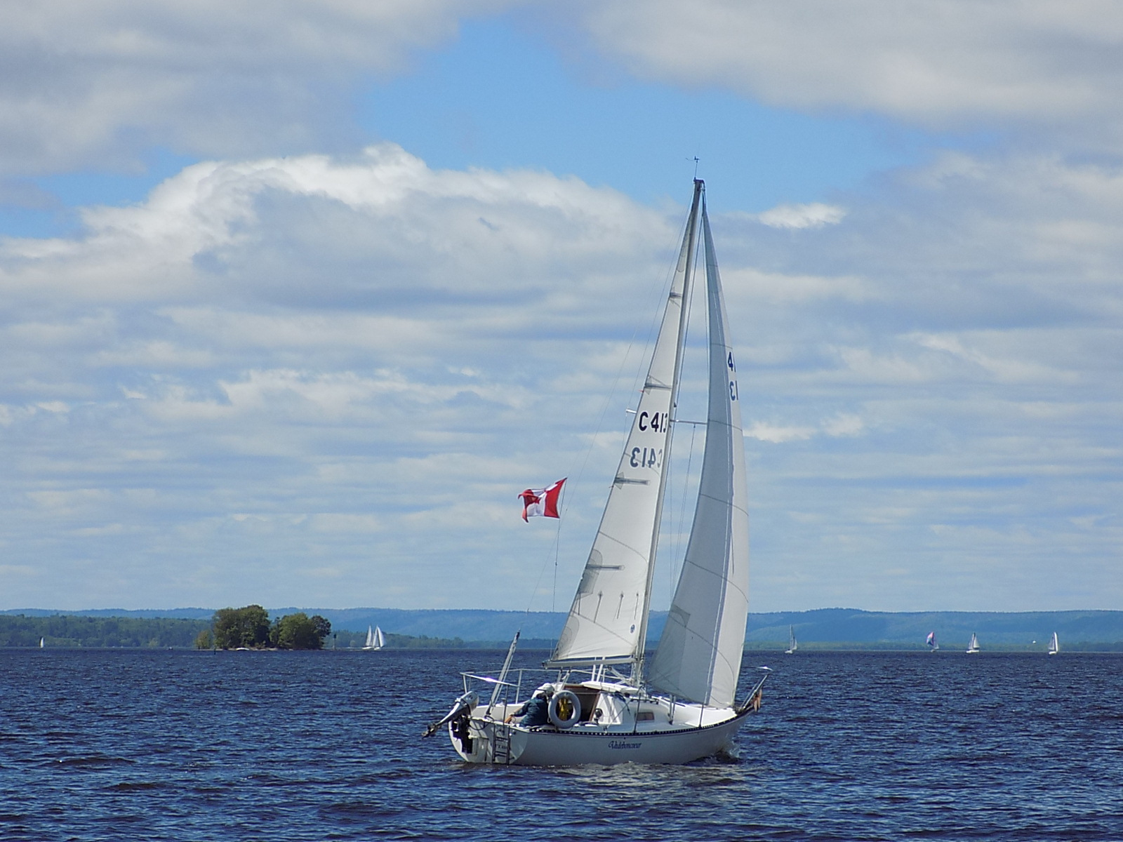 A Mirage 24 sailboat named Vadeboncoeur.